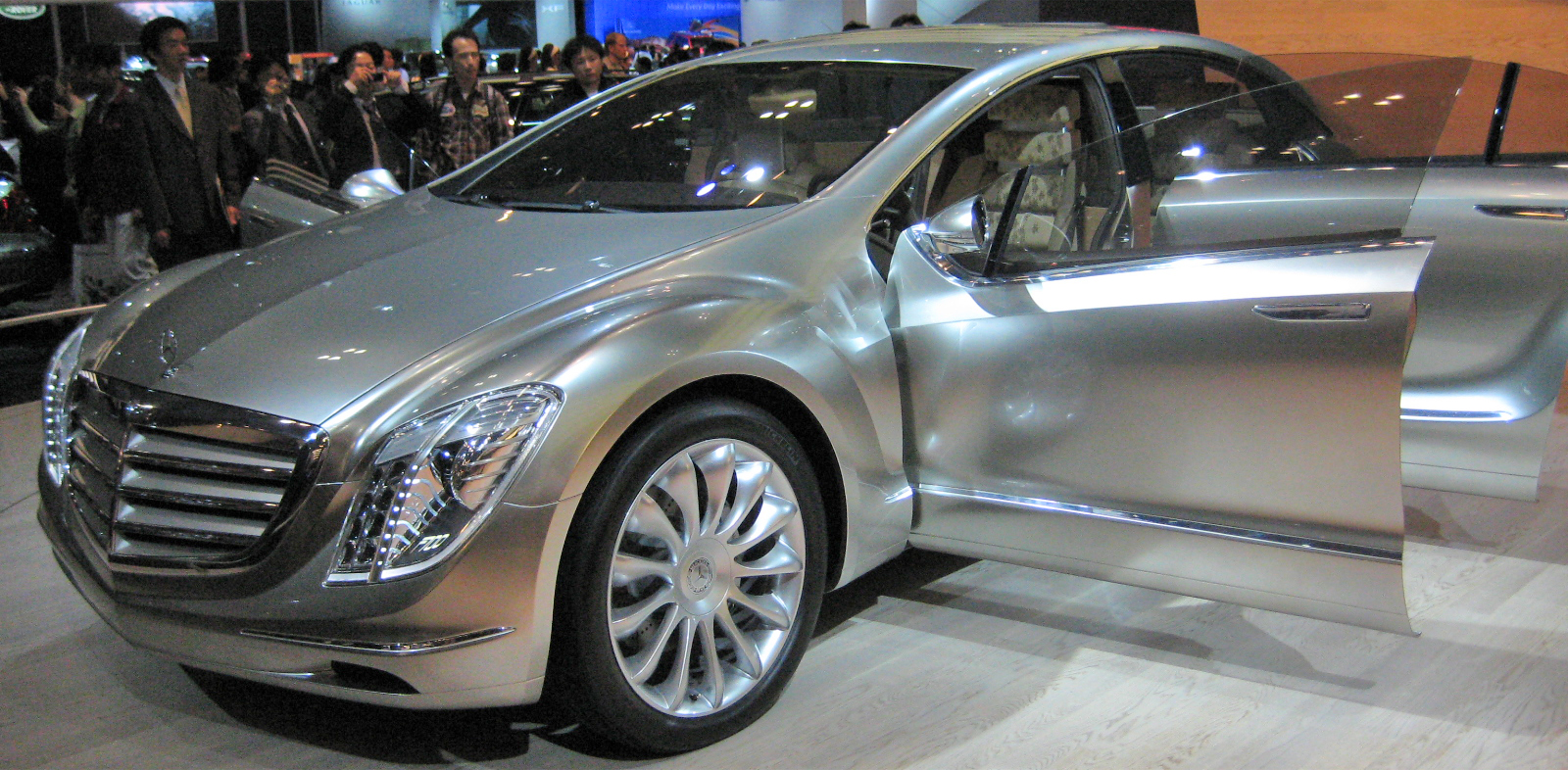 Mercedes-Benz F700 in Tokyo Motor Show 2007